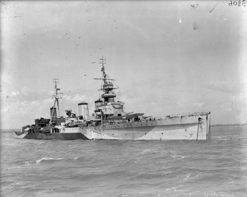 HMS Emerald At anchor at Portsmouth.